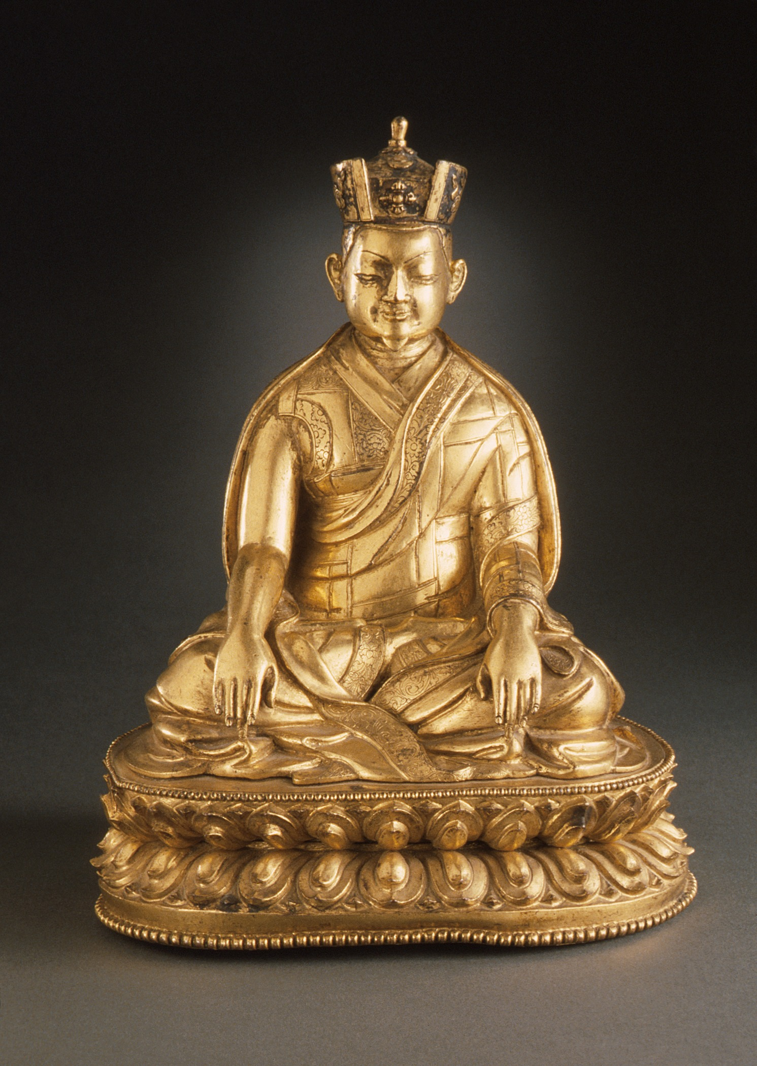 Eastern Tibet, a Karmapa Monastery, 17th century Sculpture Gilt brass with traces of paint Gift of Anna C. Walter (M.85.296) South and Southeast Asian Art